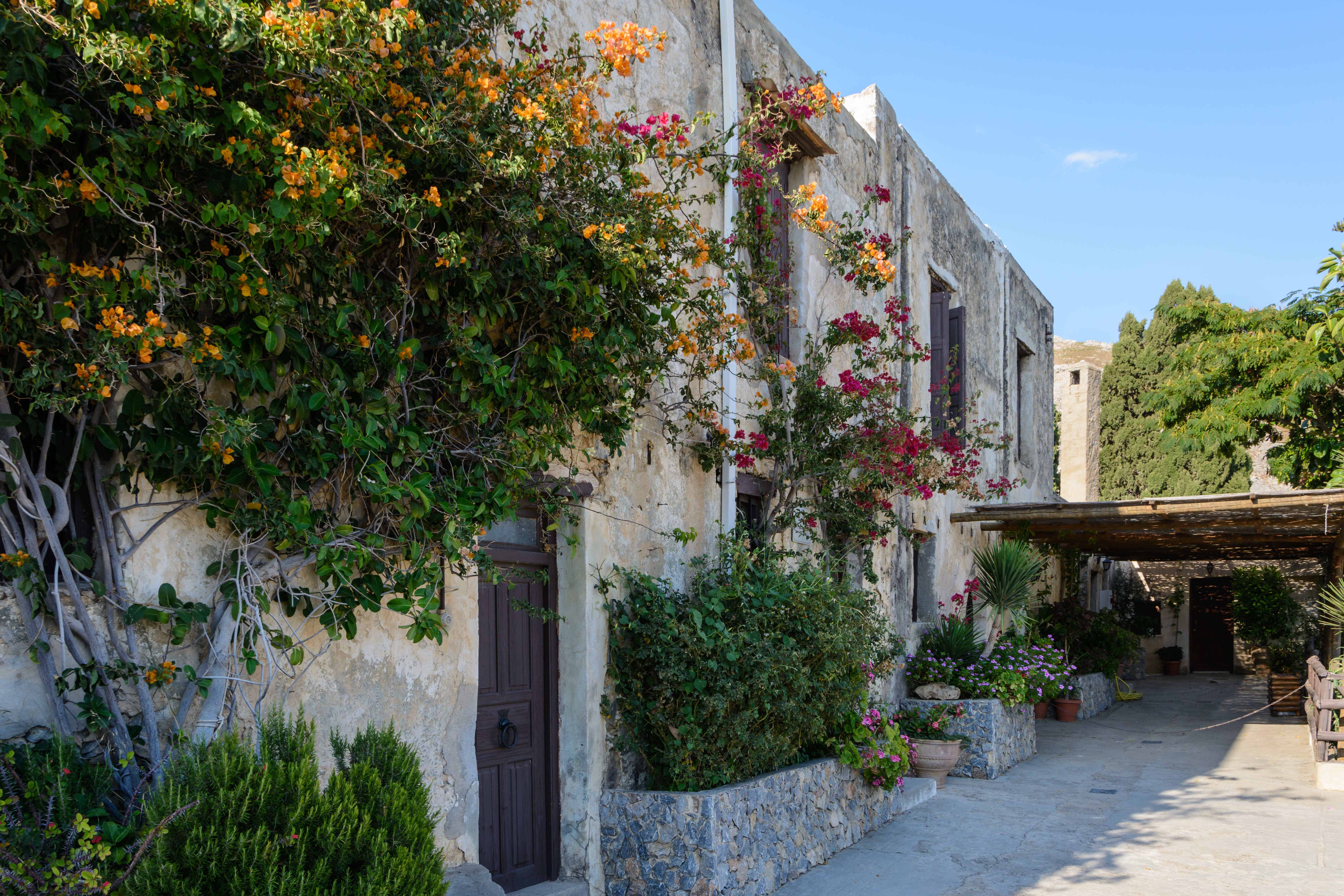 Buildings with monks' cells in Preveli Monastery (Moni Preveli), Crete